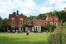 Juniper Hall Field Centre, a historical building outside of London